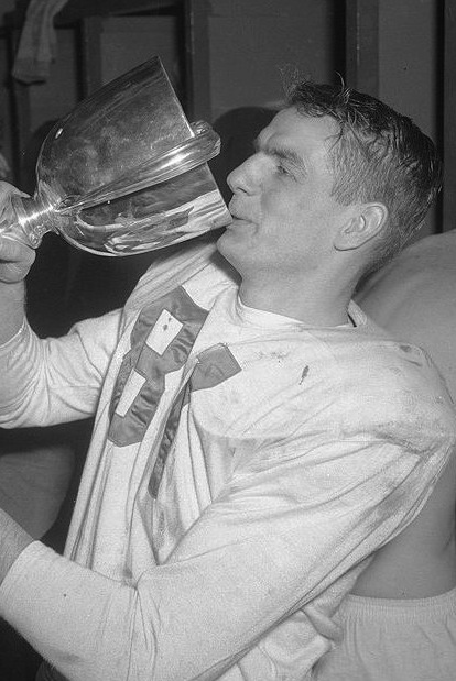 Don Getty, future Premier of Alberta, drinking out of the Grey Cup in the locker room at Varsity Stadium, Toronto, Ontario, Canada.